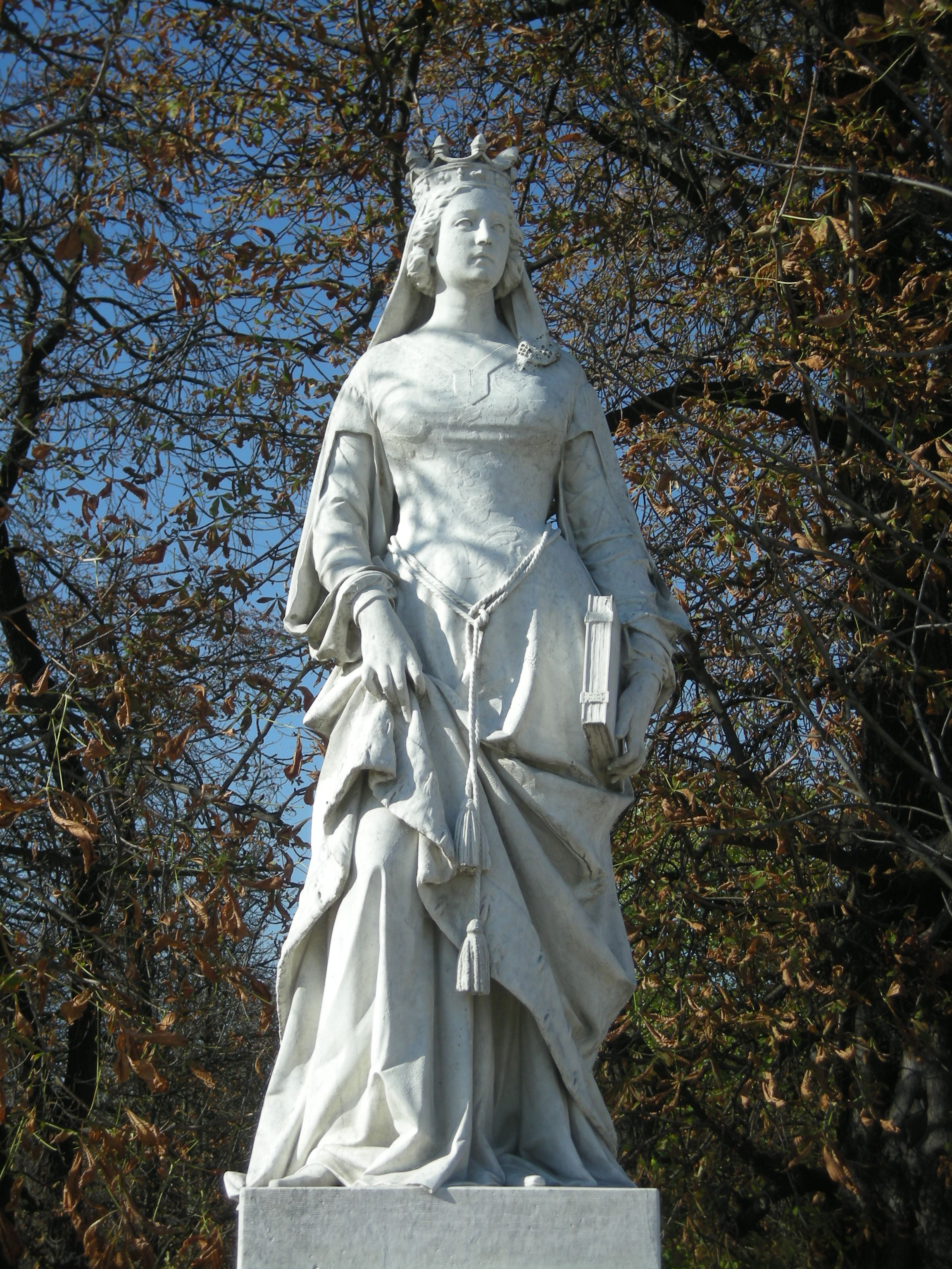 The Queens of France and Famous Women, a series of sculptures in the jardin du Luxembourg in Paris. It consists of 20 marble sculptures arranged around a large pond in front of the palais du Luxembourg.